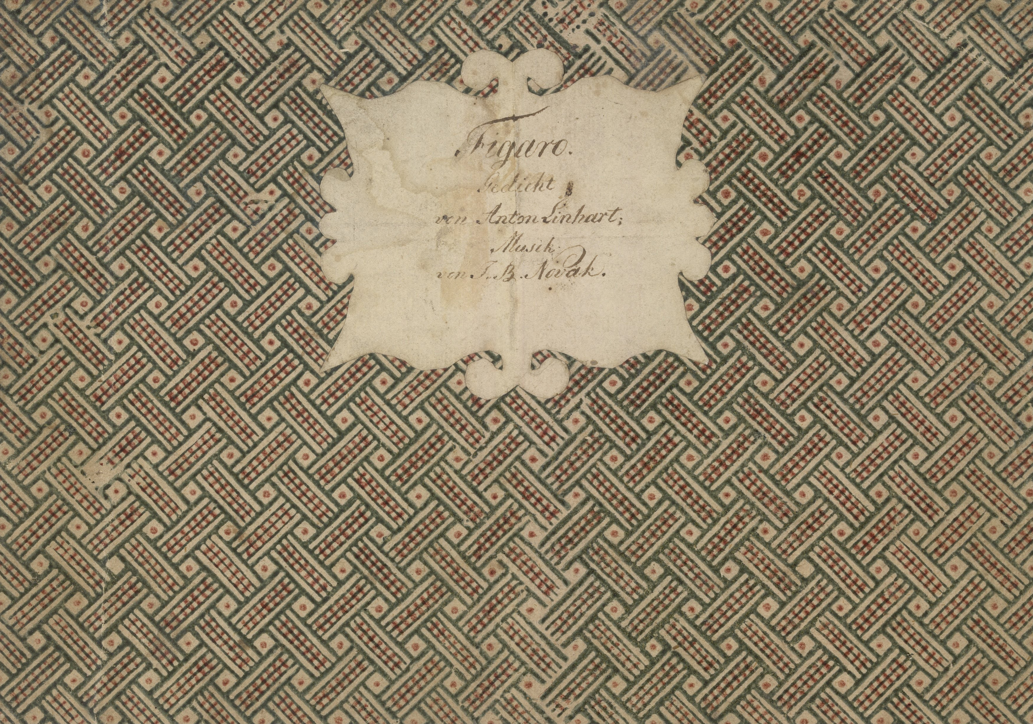 Figaro. Music for the staging of Linhart's comedy Ta Veseli dan ali Matiček se ženi.